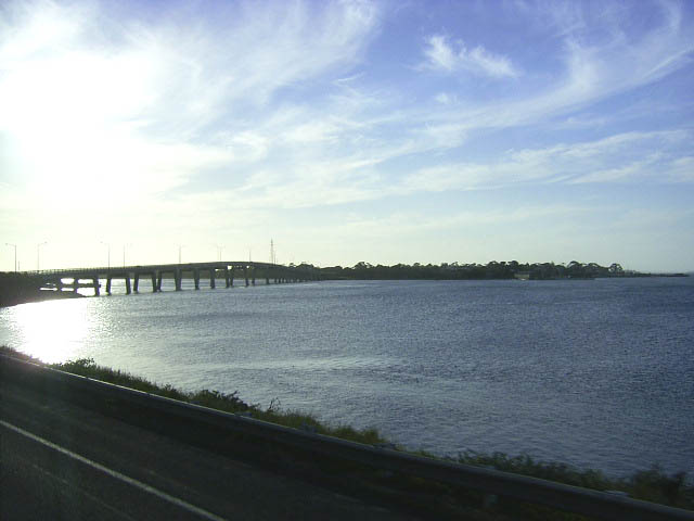 The image depicts the bridge between San Remo, Victoria, and Newhaven, Victoria. Victoria, Australia